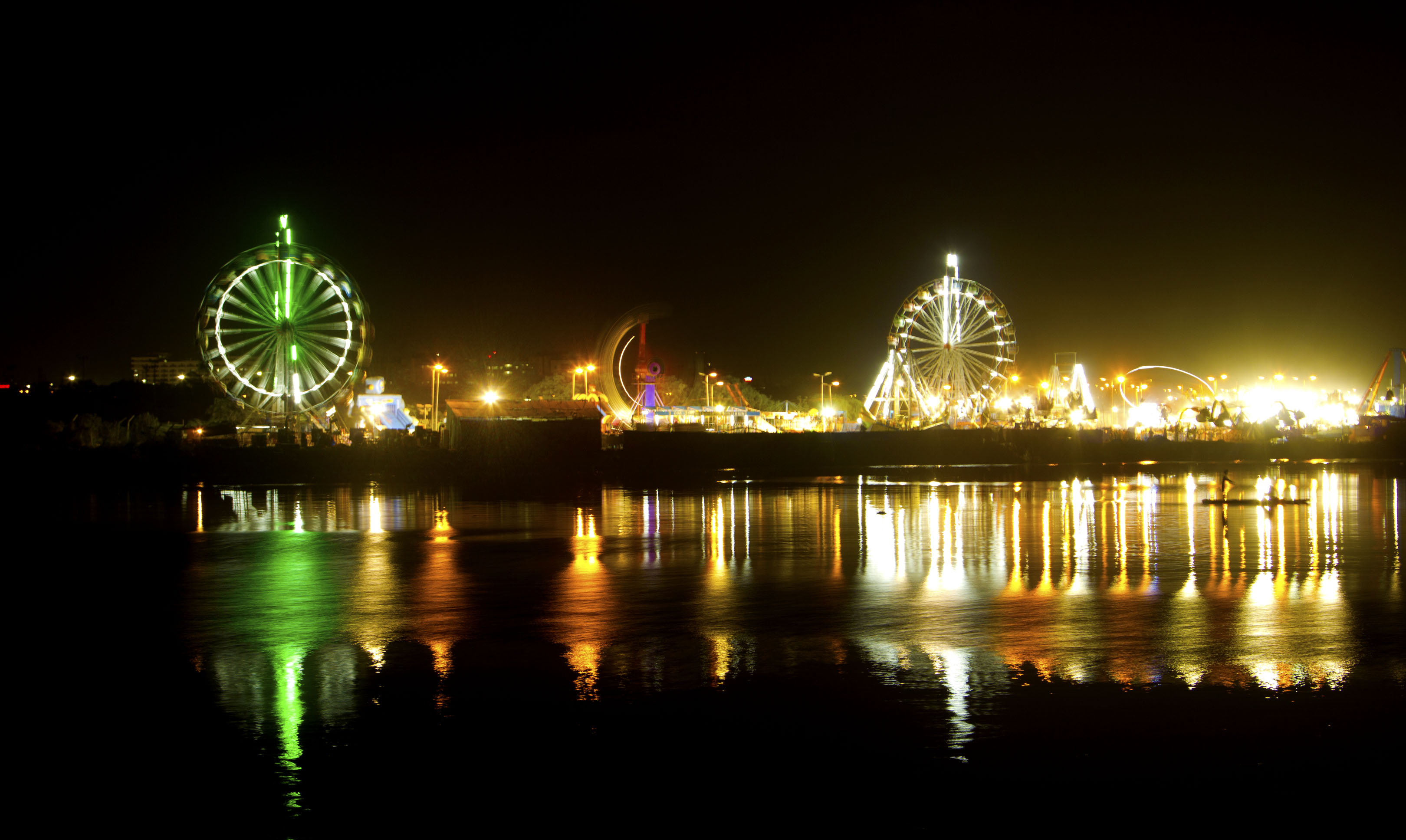 islandground